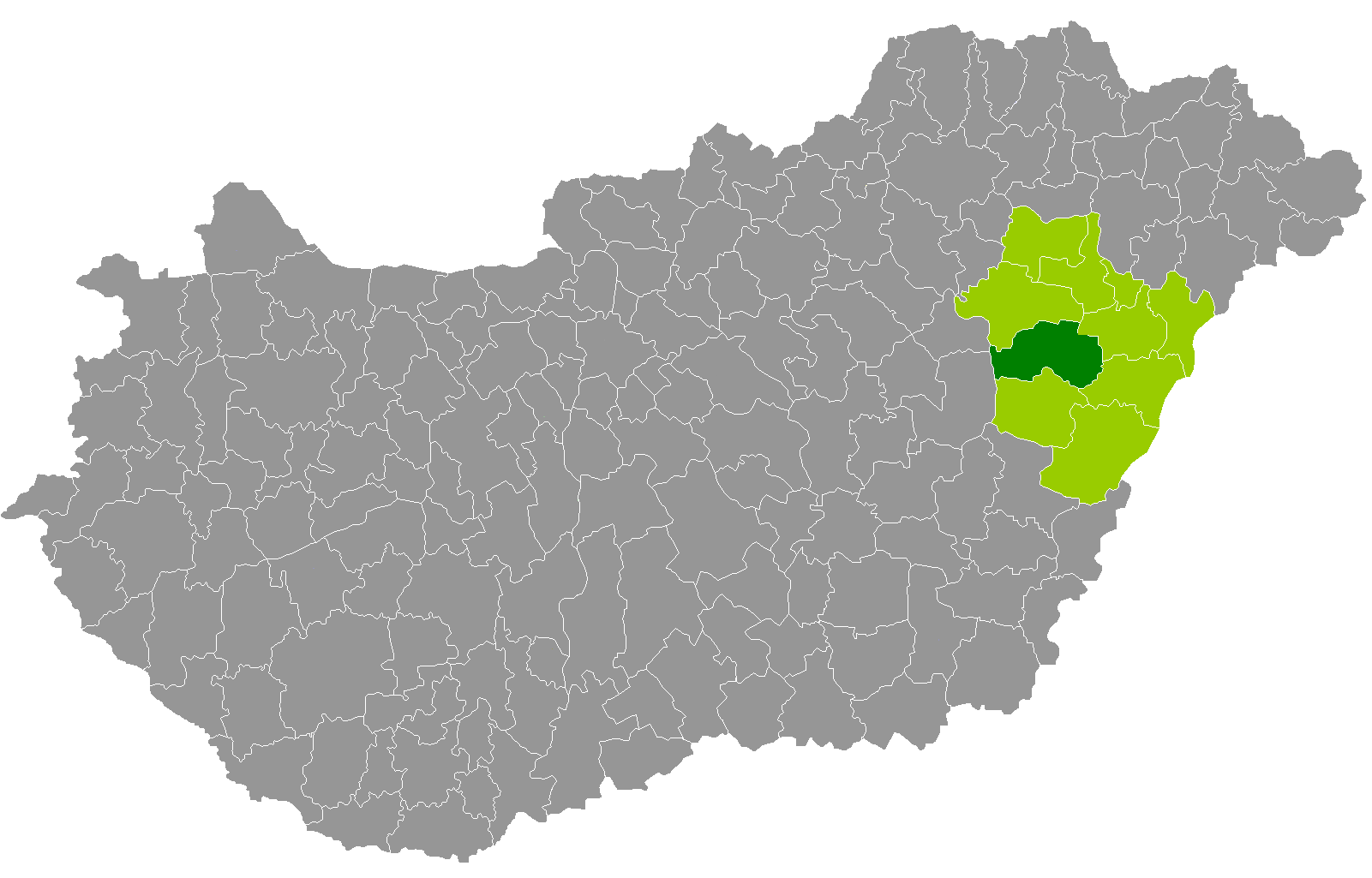 Location of Hajdúszoboszló District, Hajdú-Bihar, Hungary